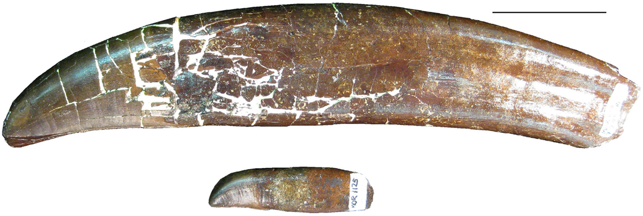 Tyrannosaurus (MOR 1125, “B-rex”) teeth from the lower jaw of this medium-sized skeleton illustrate the extreme range in overall tooth size within one individual. The black scale bar is 5cm long. Above: A smaller posterior tooth from position #14 from the front of the jaw. Below: A larger tooth from position #4 in the same jaw. This demonstrates why shed dinosaur teeth are not a reliable indicator of relative skeletal size and ontogenetic age.